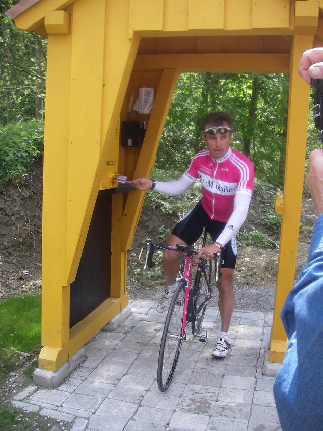 The picture shows the professionel Racebike Steffen Wesenmann using the Stoppomat